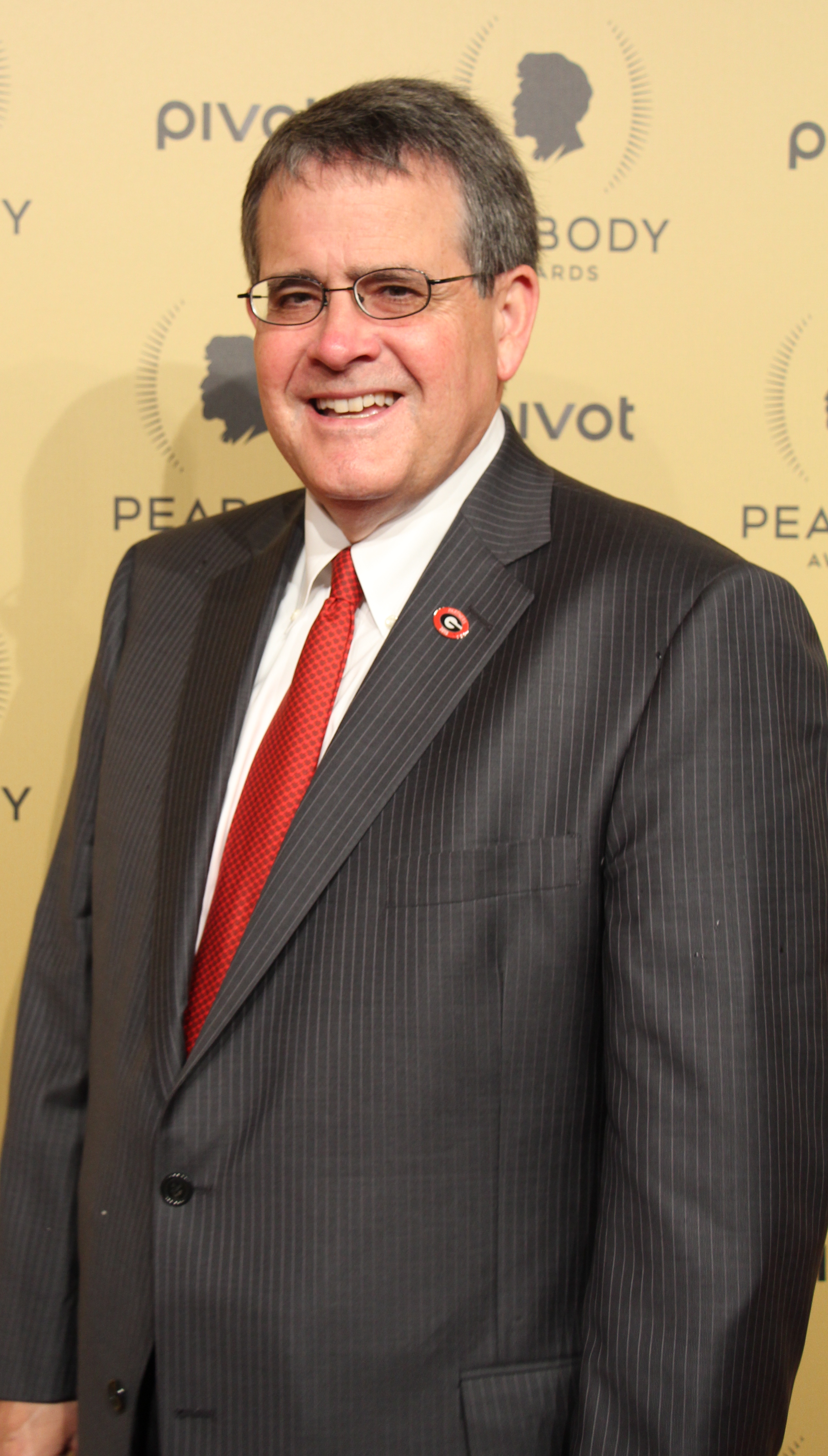 University of Georgia President Jere Morehead on the Peabody Awards red carpet